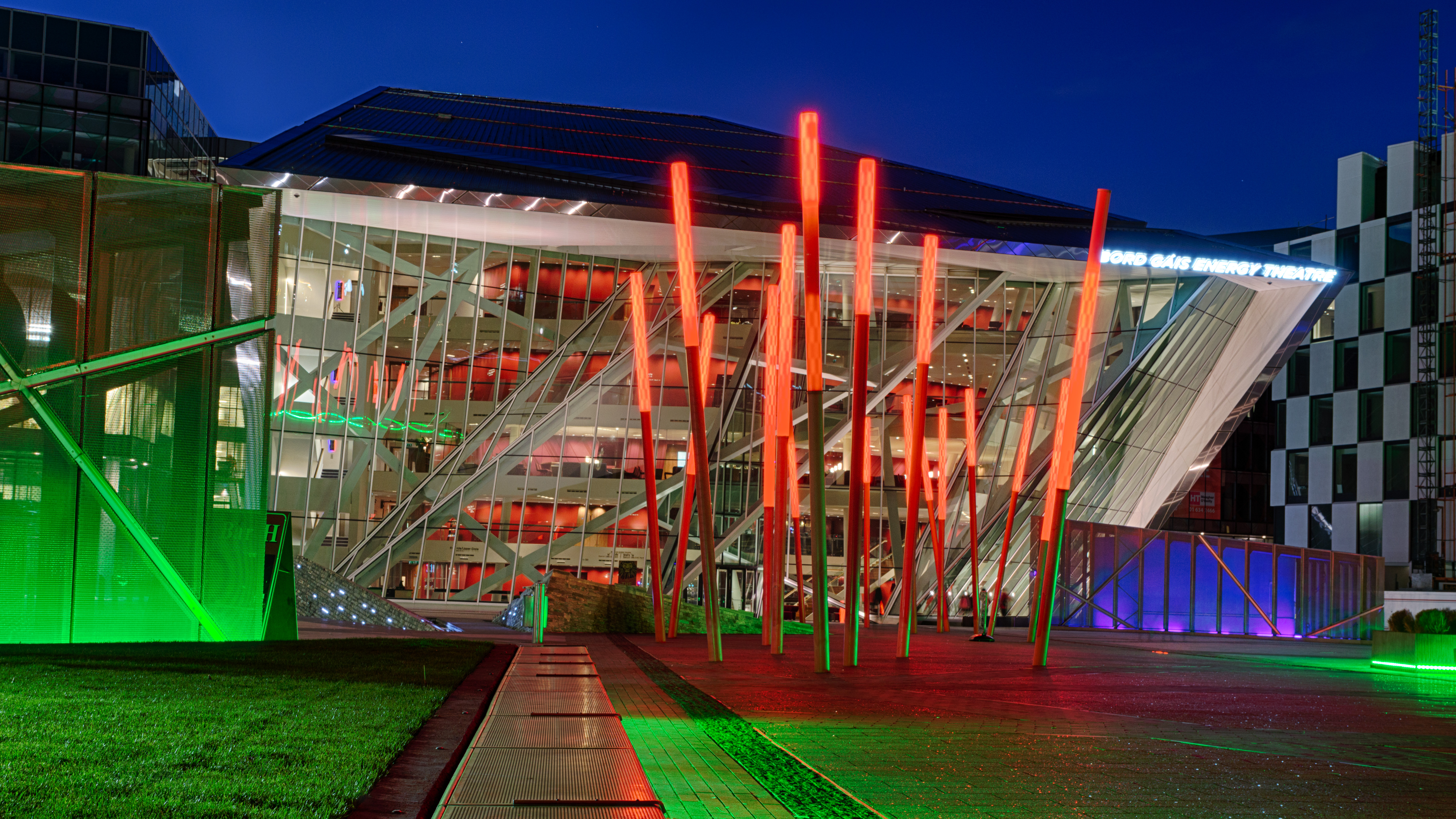 Bord Gáis Energy Theatre in Dublin at night